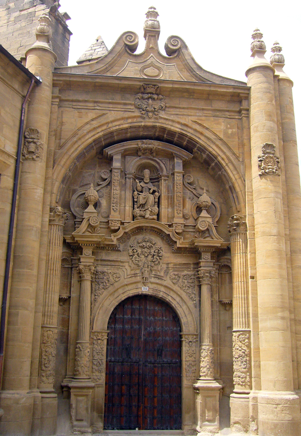 Church of Saint Peter, Viana, Navarre